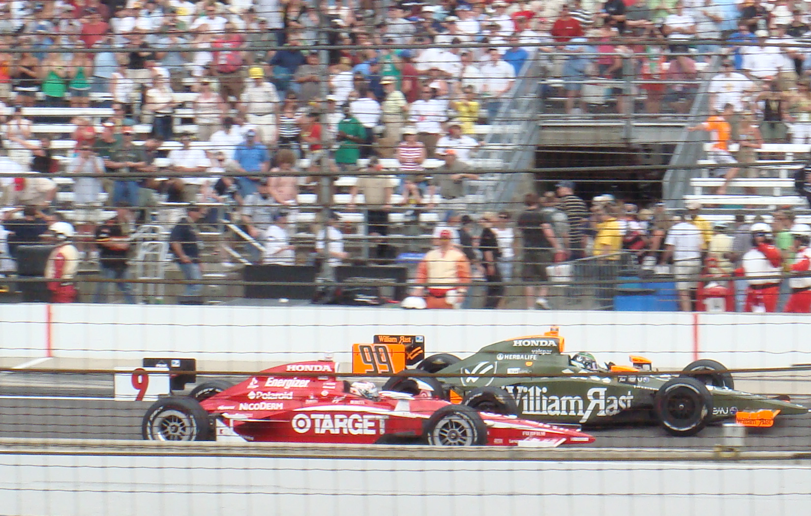 Scott Dixon, in the number 9 car, takes a victory lap following his win at the 2008 Indianapolis 500.